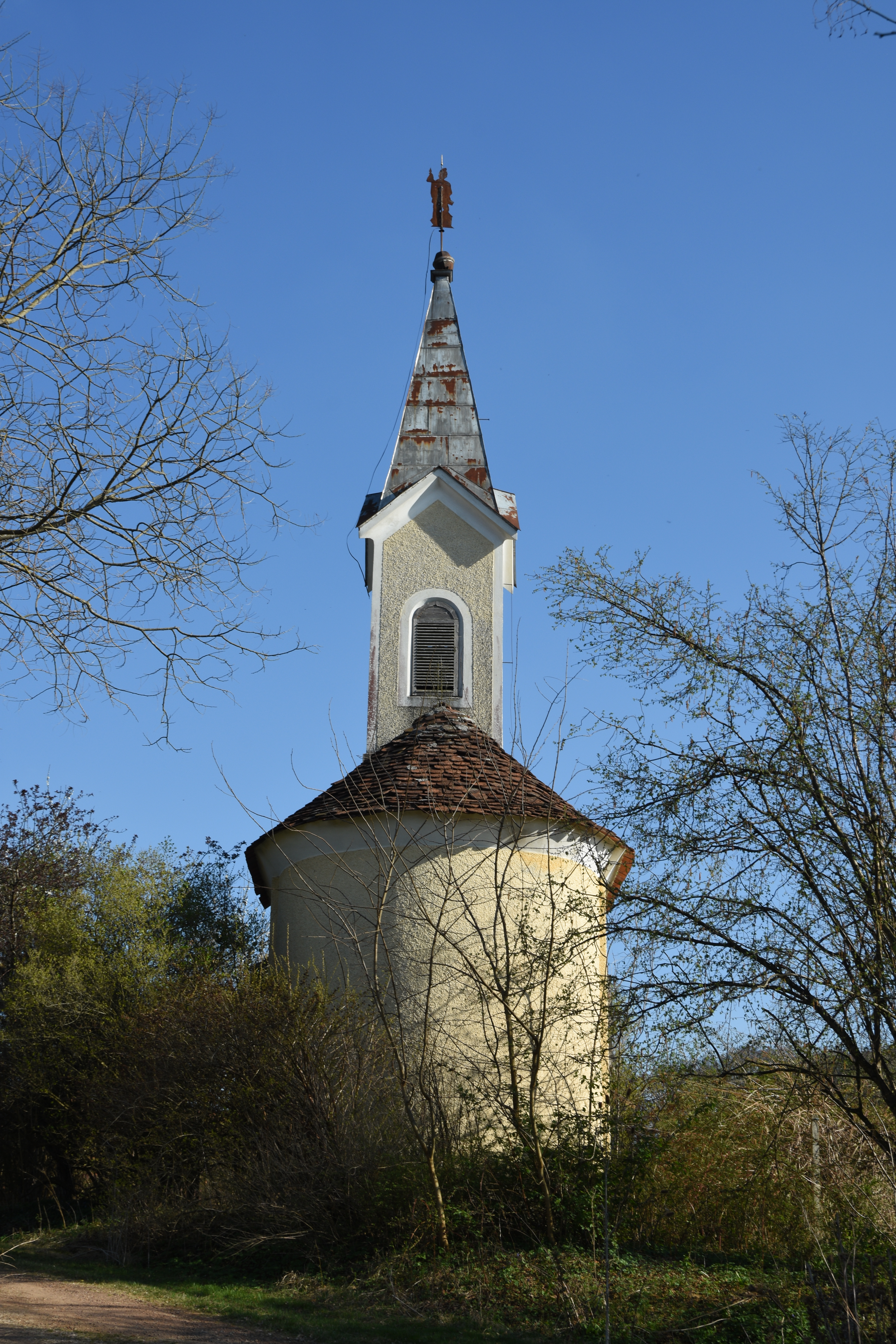 Mitterfladnitz